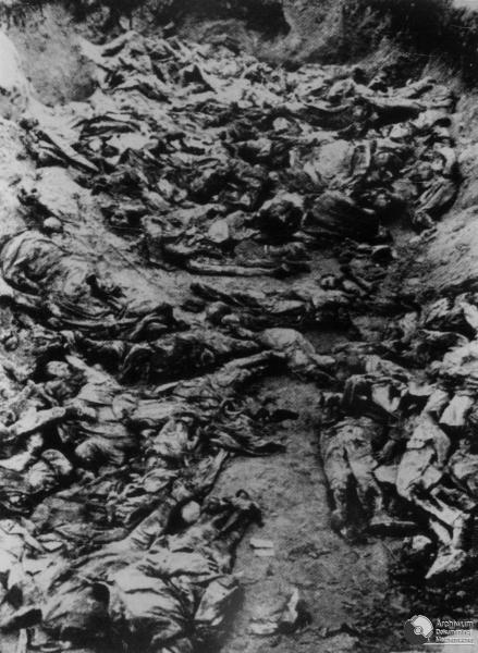 Photo from 1943 exhumation of mass grave of Polish officers killed by NKVD in Katyń Forest in 1940. Inside of one of largest grave.